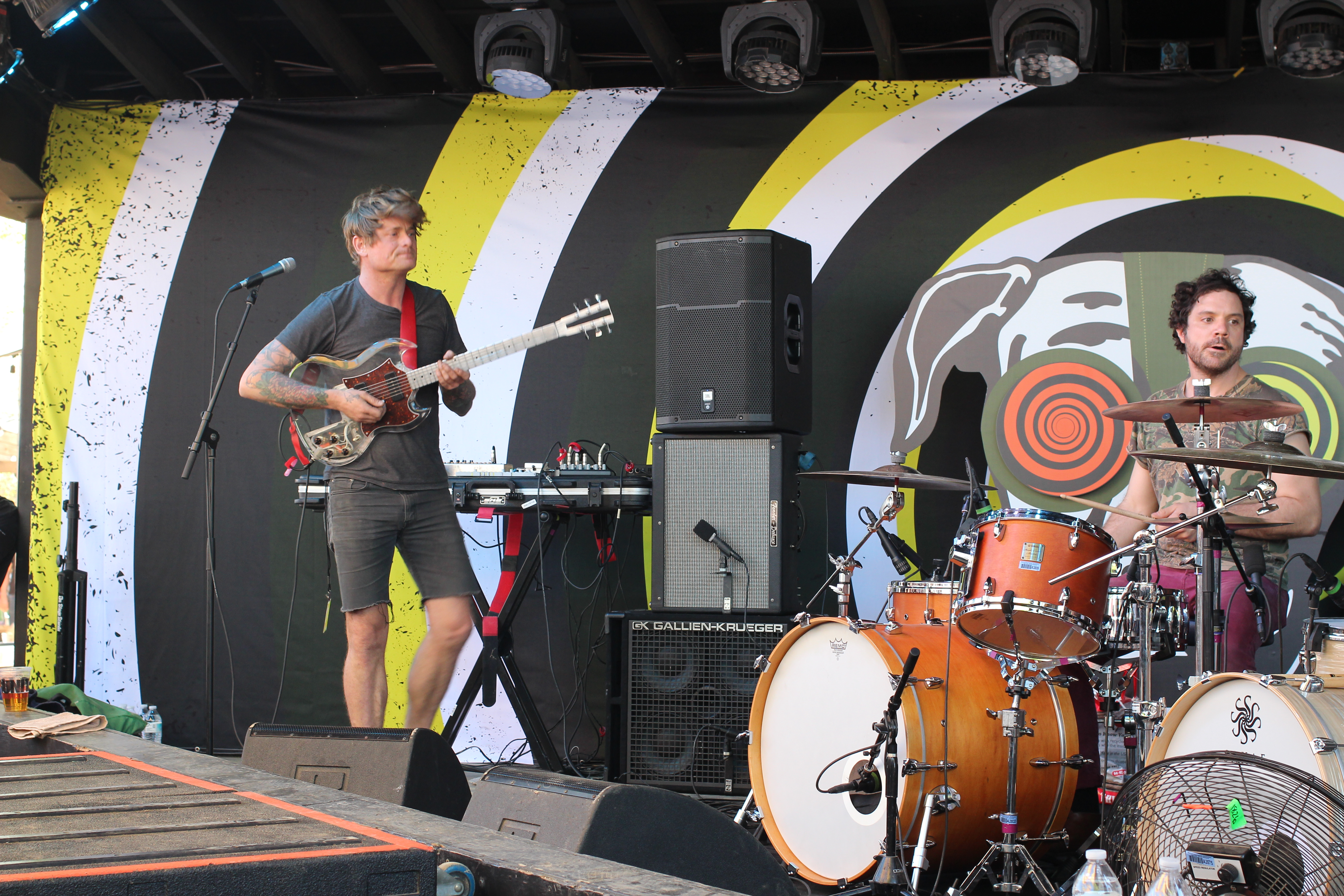 Thee Oh Sees